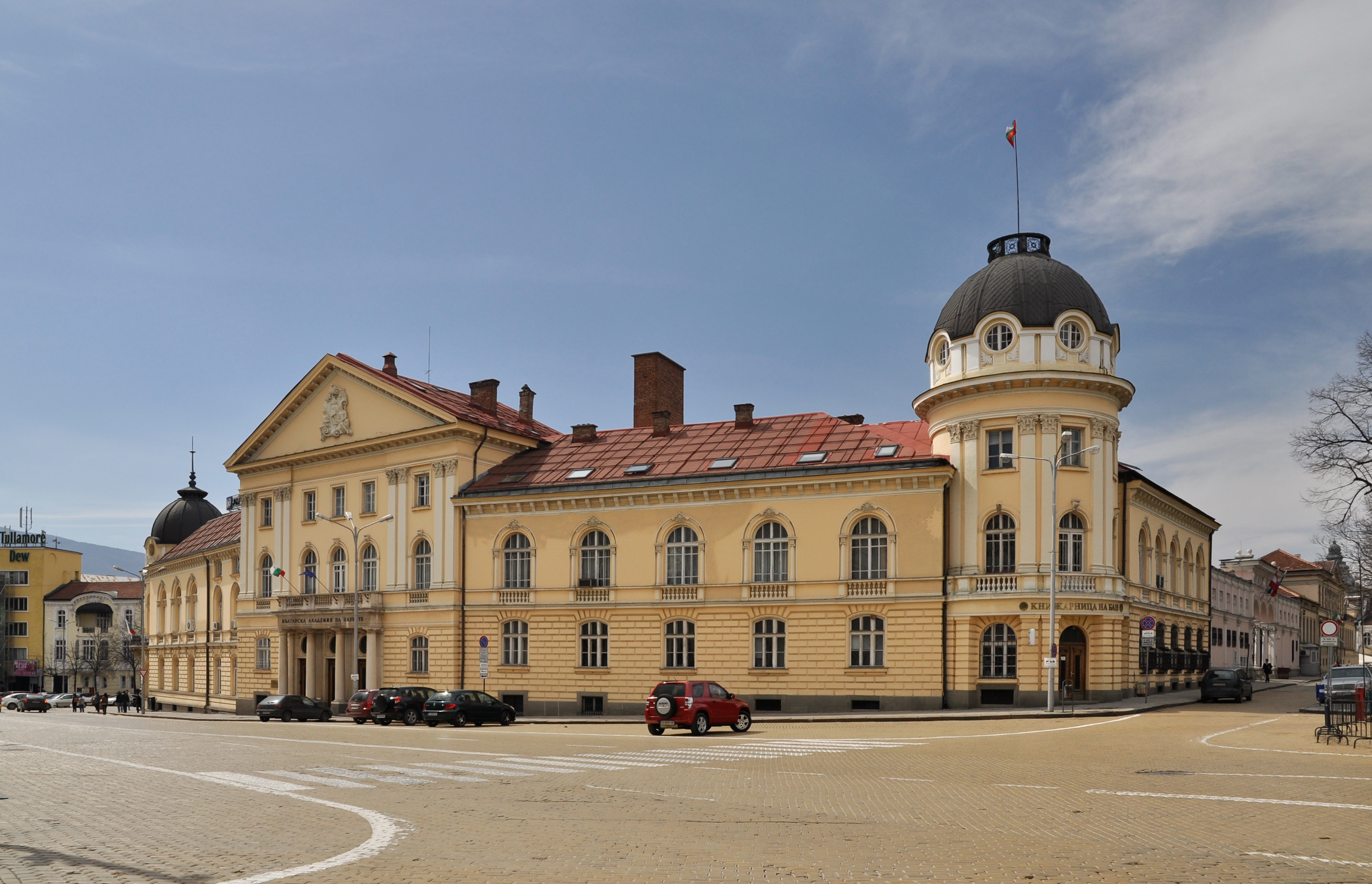 Headquarters of the Bulgarian Academy of Sciences in Sofia.